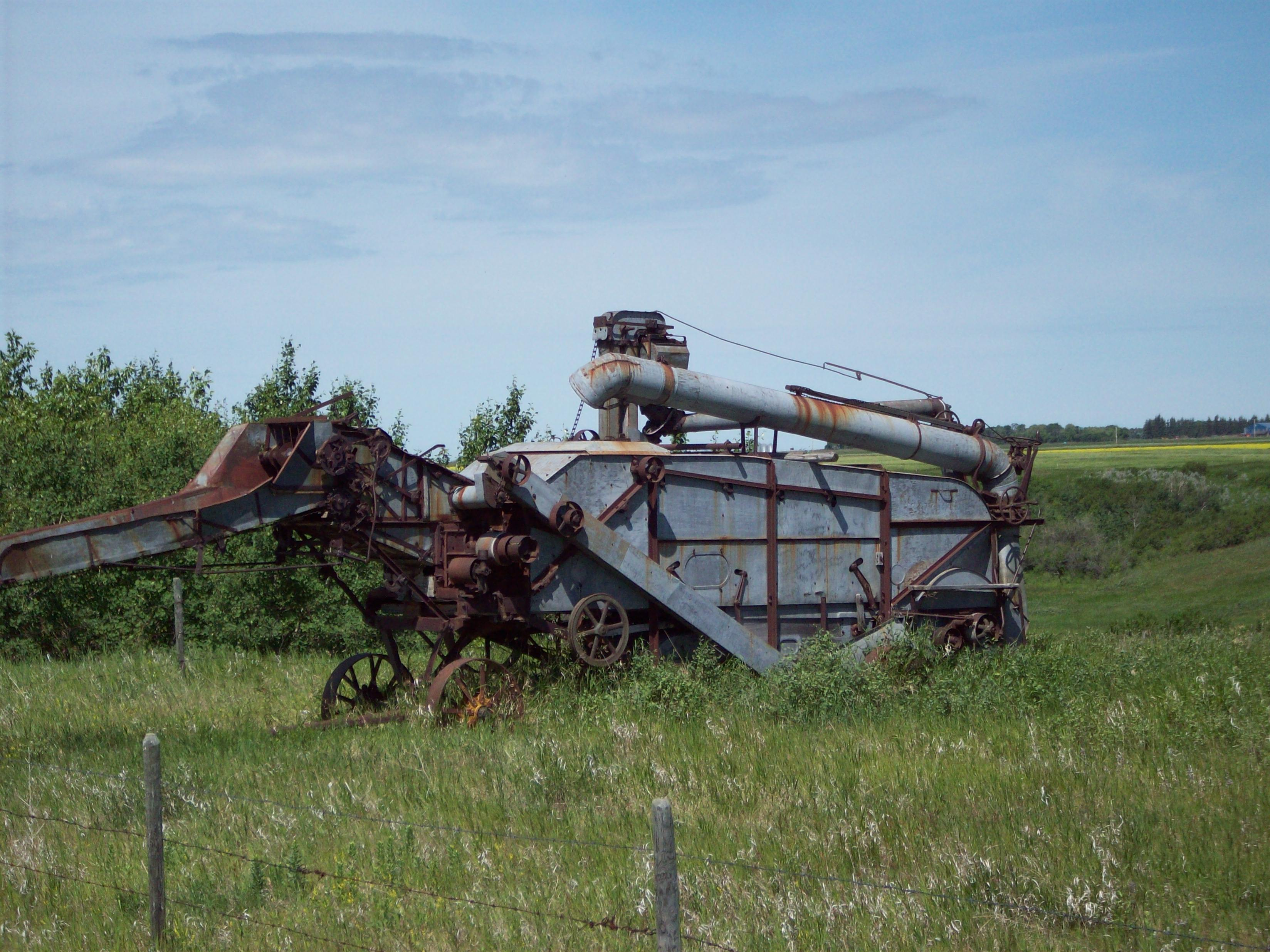 Combine wreckage on a Springbrook farm